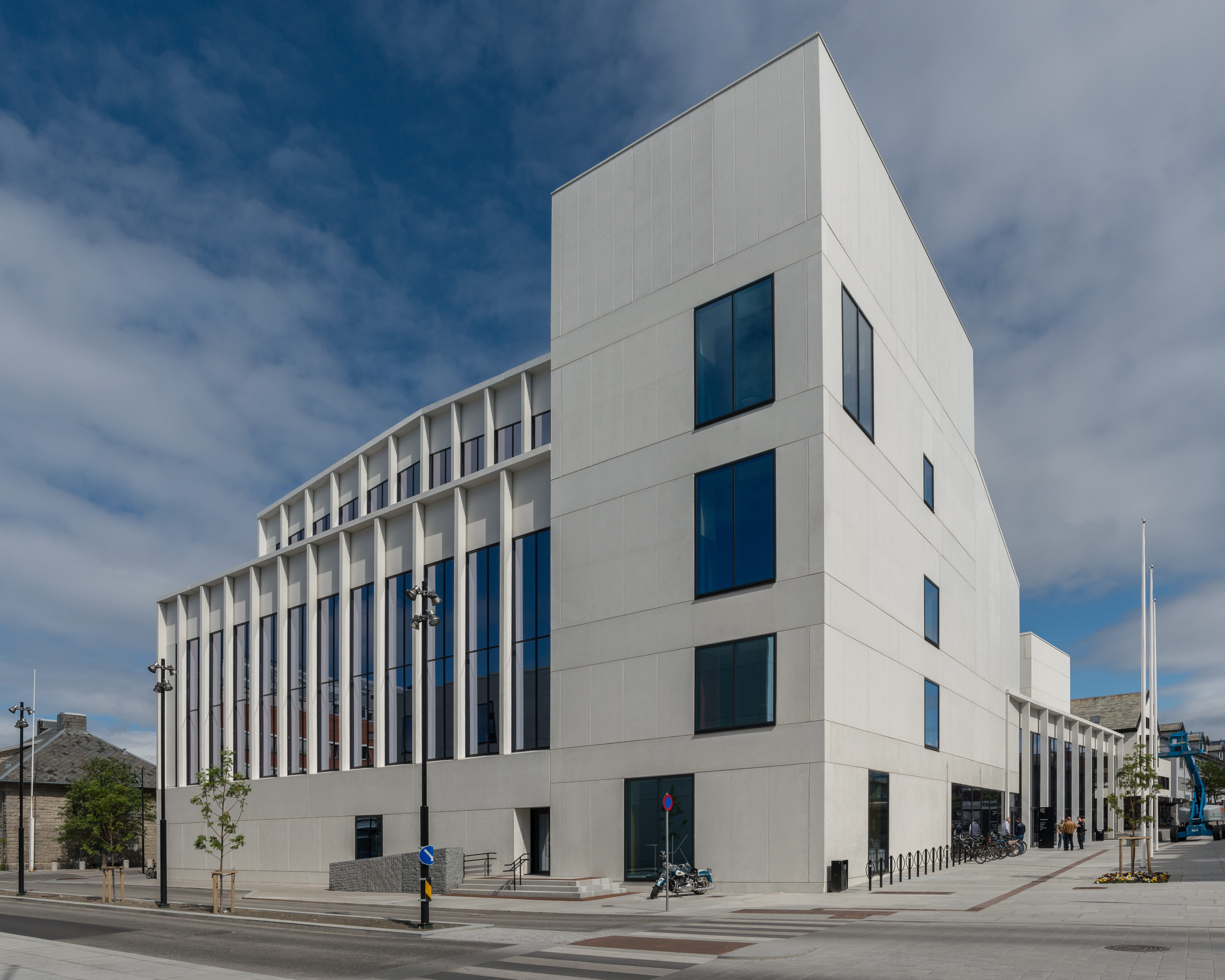 A south view of the concert hall that is part of the Stormen complex in Bodø